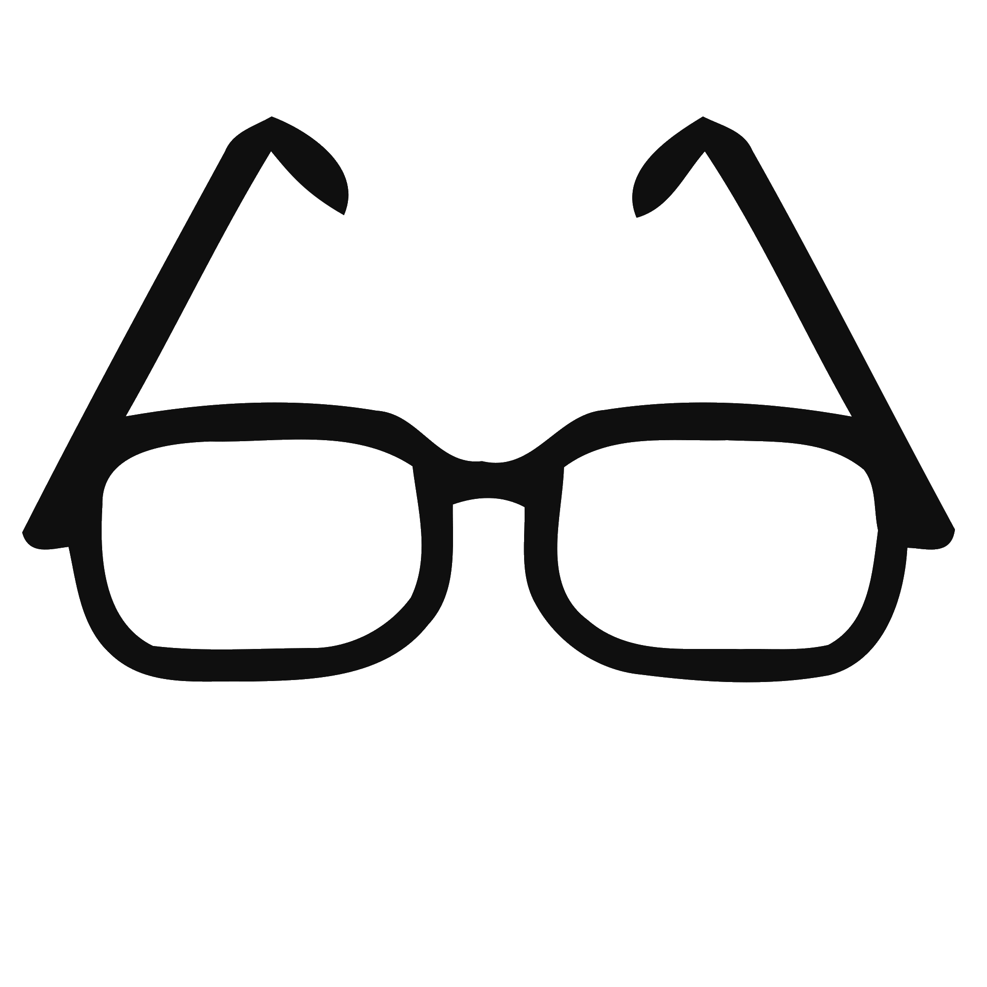 A transparent logo.